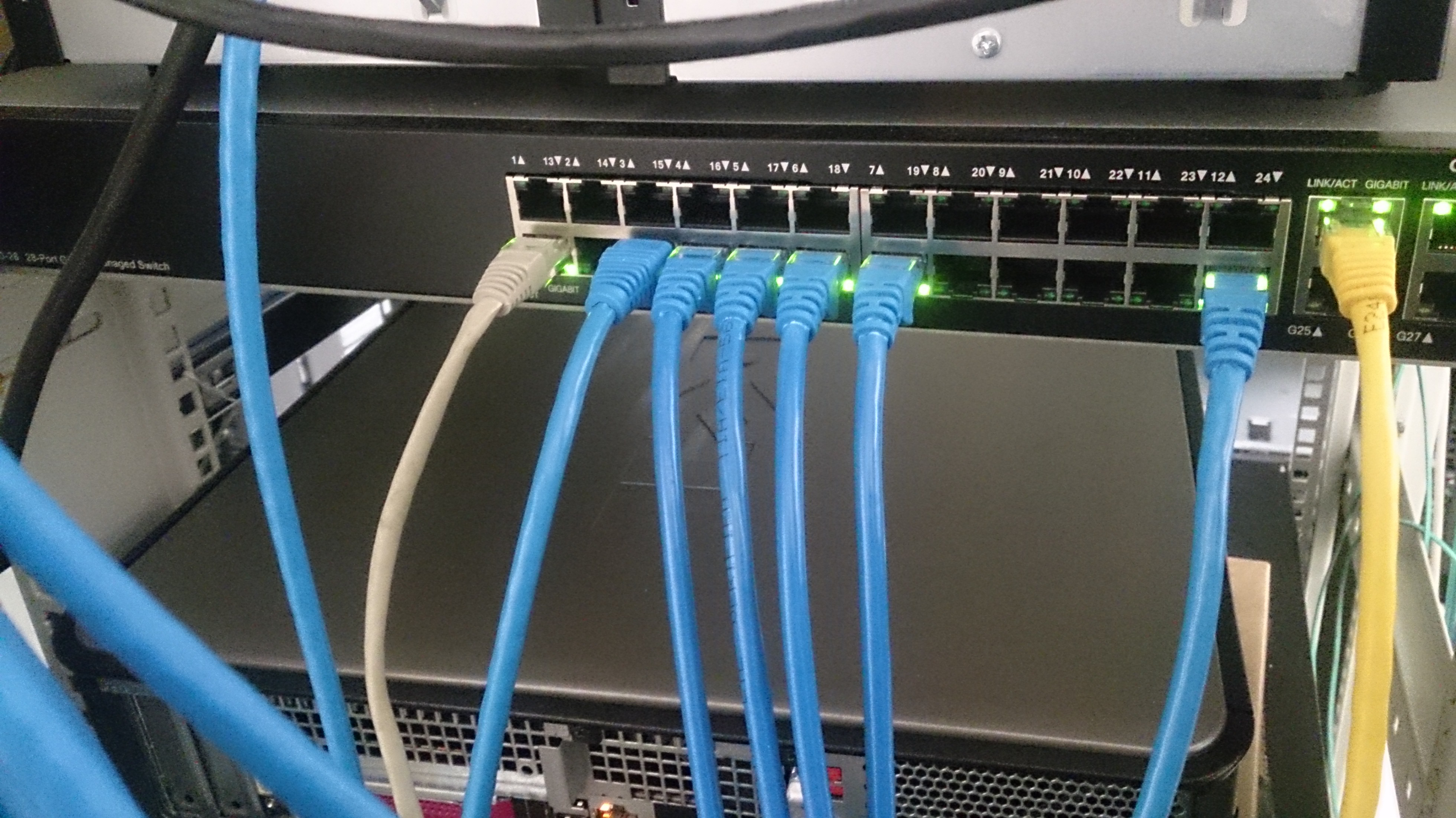 network cables and switch